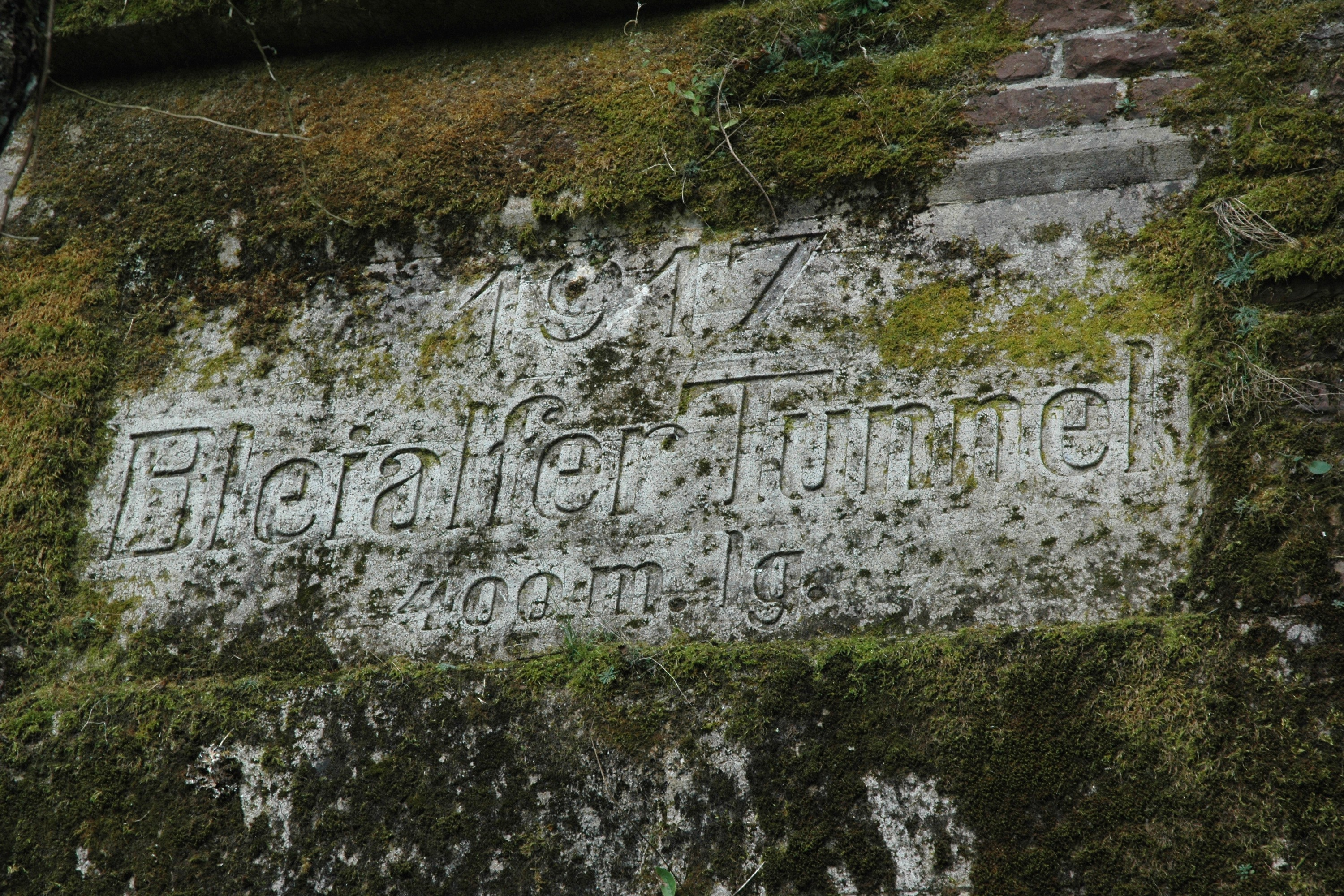 Inscription at Bleialfer Tunnel